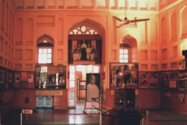 Photograph taken by me at the Sardar Patel National Memorial, Ahmedabad.